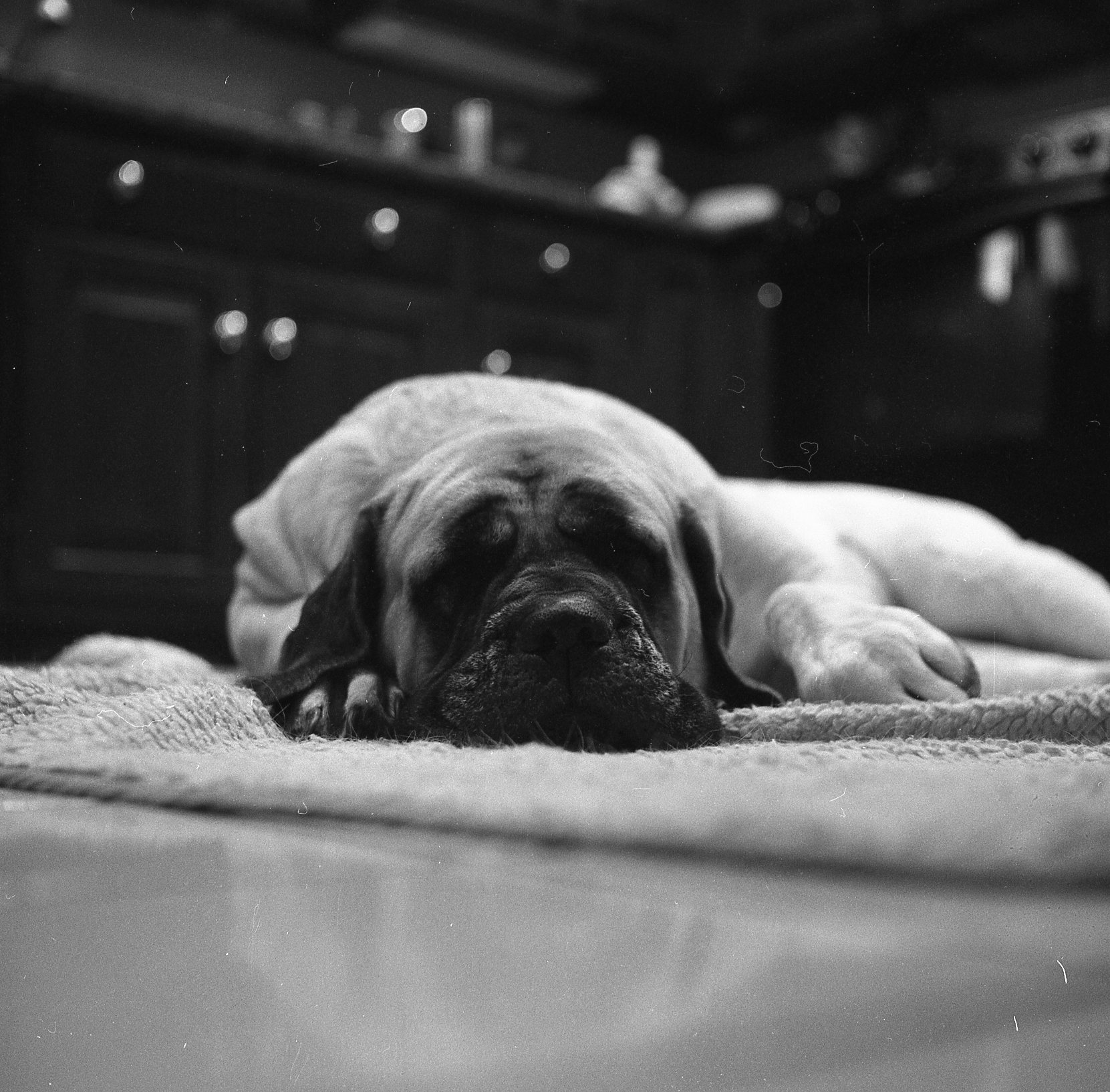 My English Mastiff asleep on the kitchen floor. Yashica 24 with Kodak TMAX 400 or 100, I can't remember.